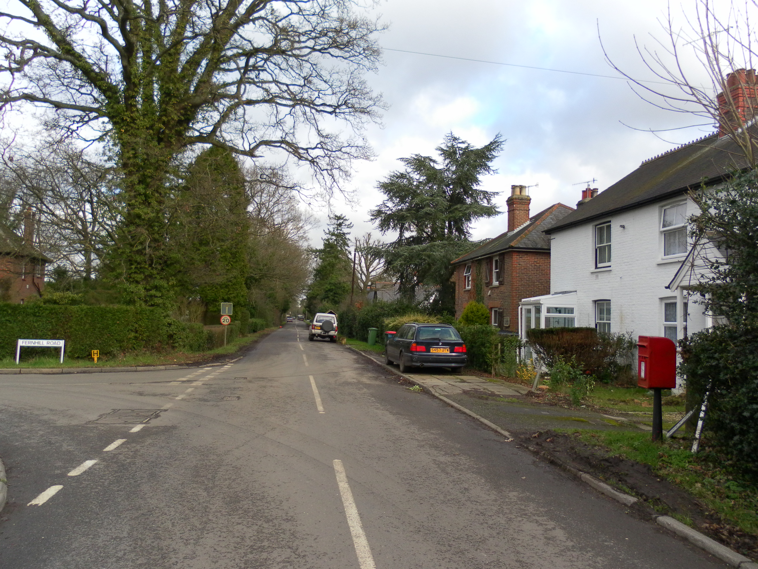 Junction of Peeks Brook Lane and Fernhill Road, Fernhill, Borough of Crawley, West Sussex, England. I am standing on Peeks Brook Lane facing north. Fernhill Road goes west from the junction (left foreground) to meet the B2036 Balcombe Road. On 5 January 1969, Ariana Afghan Airlines Flight 701 passed very low over this point (knocking off chimneys, TV aerials etc) immediately before crashing a few hundred yards to the west next to Fernhill Road. This area was in Surrey until 1990, when the Surrey/West Sussex boundary was aligned to the M23 (which runs behind the houses on the right). Accordingly it moved into the Borough of Crawley from the District of Tandridge (and Parish of Burstow) at that time. The crash site itself was actually in West Sussex though, by a matter of yards.